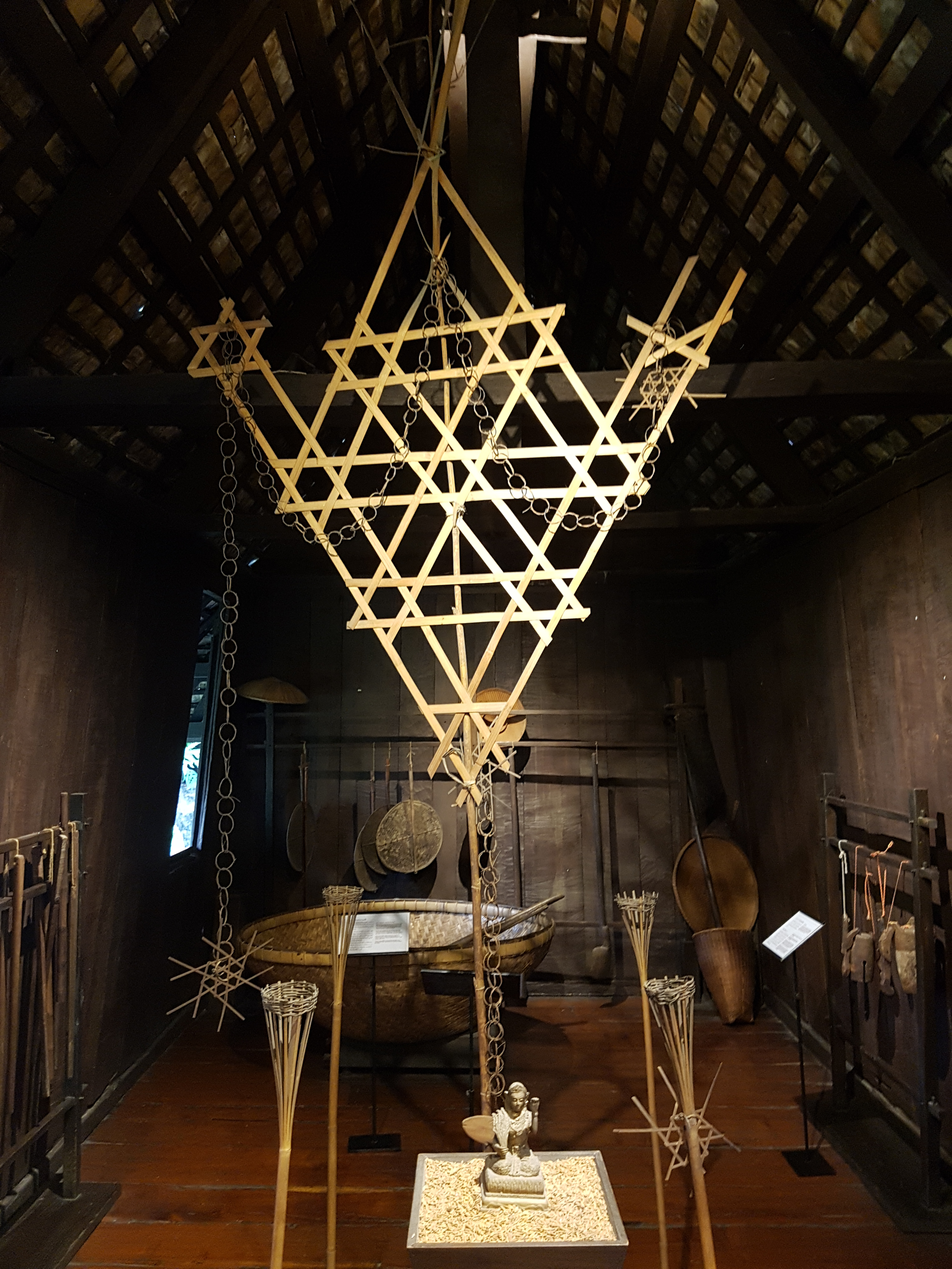 Place: Siam Society Headquarters, Bangkok, Thailand. Items: A Phosop image on top of rice a container, with a large woven bamboowork, called chaleo (เฉลว), hanging above.